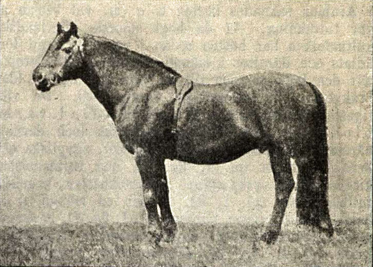 North Swedish Horse, a horse breed